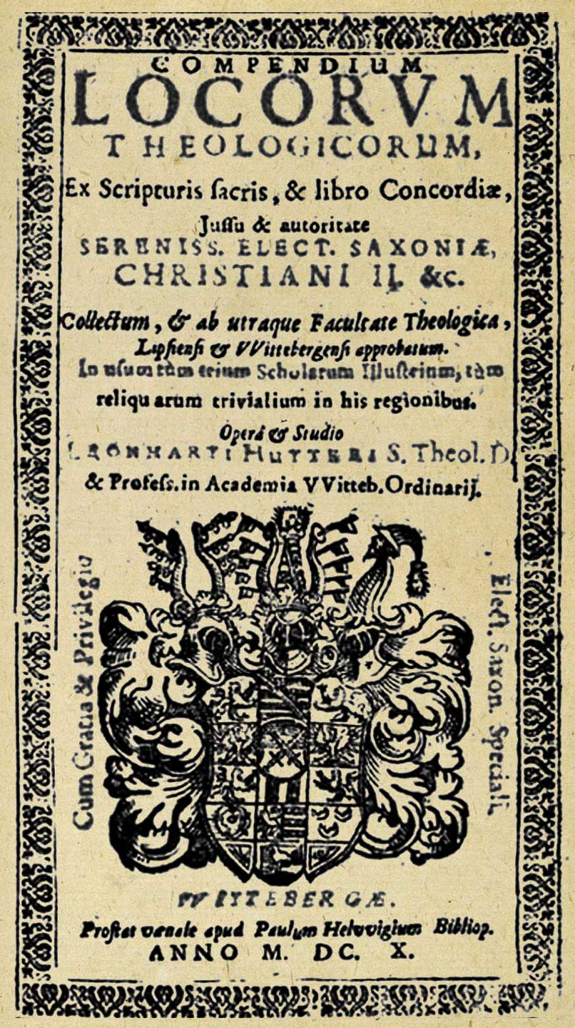 "Compendium locorum theologicorum" von Leonhardt Hutter